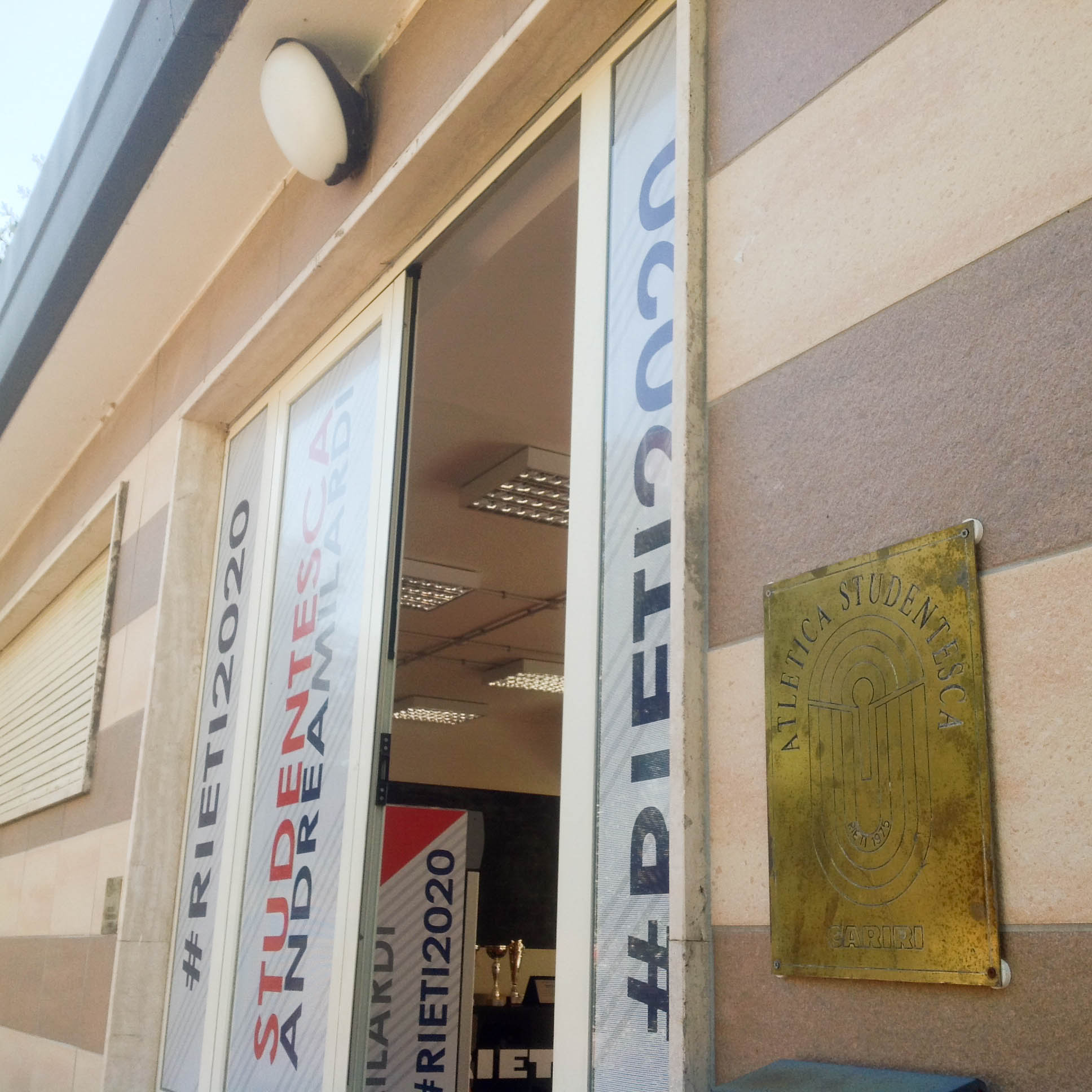 Headquarters of "Atletica studentesca CARIRI" athletics club, inside the Raul Guidobaldi stadium - Rieti, Italy